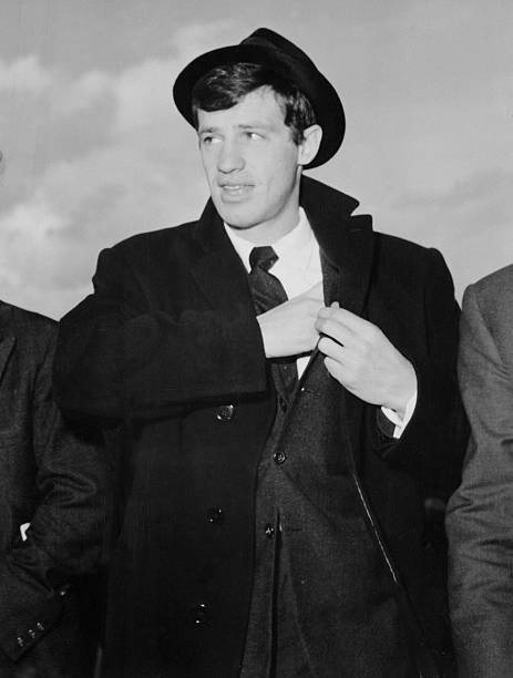 ITALY - NOVEMBER 14: Jean-Paul Belmondo In Roma, 1962.